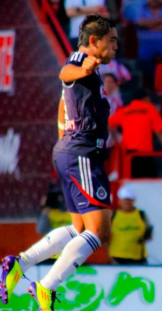 Chivas player Marco Fabian